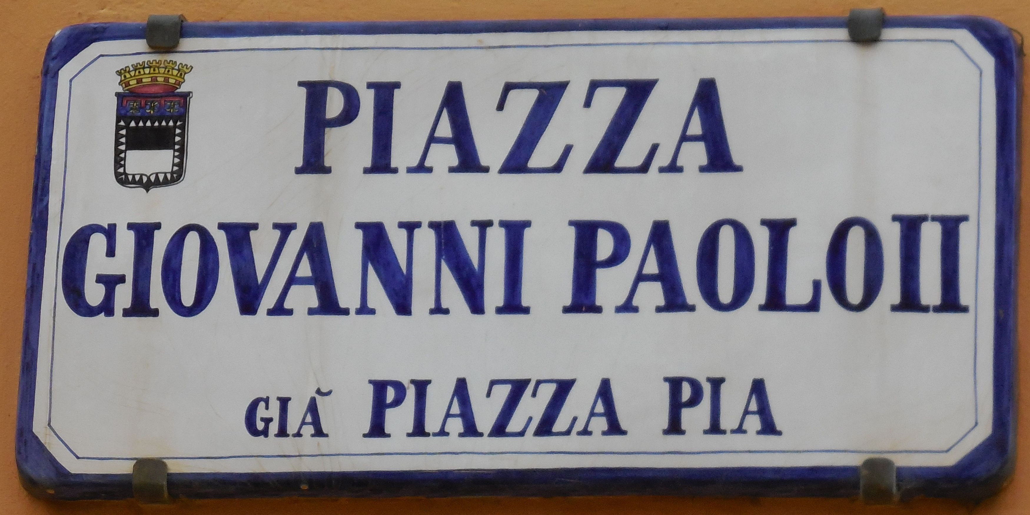 Street sign: John Paul II Square, Cesena (Italy)